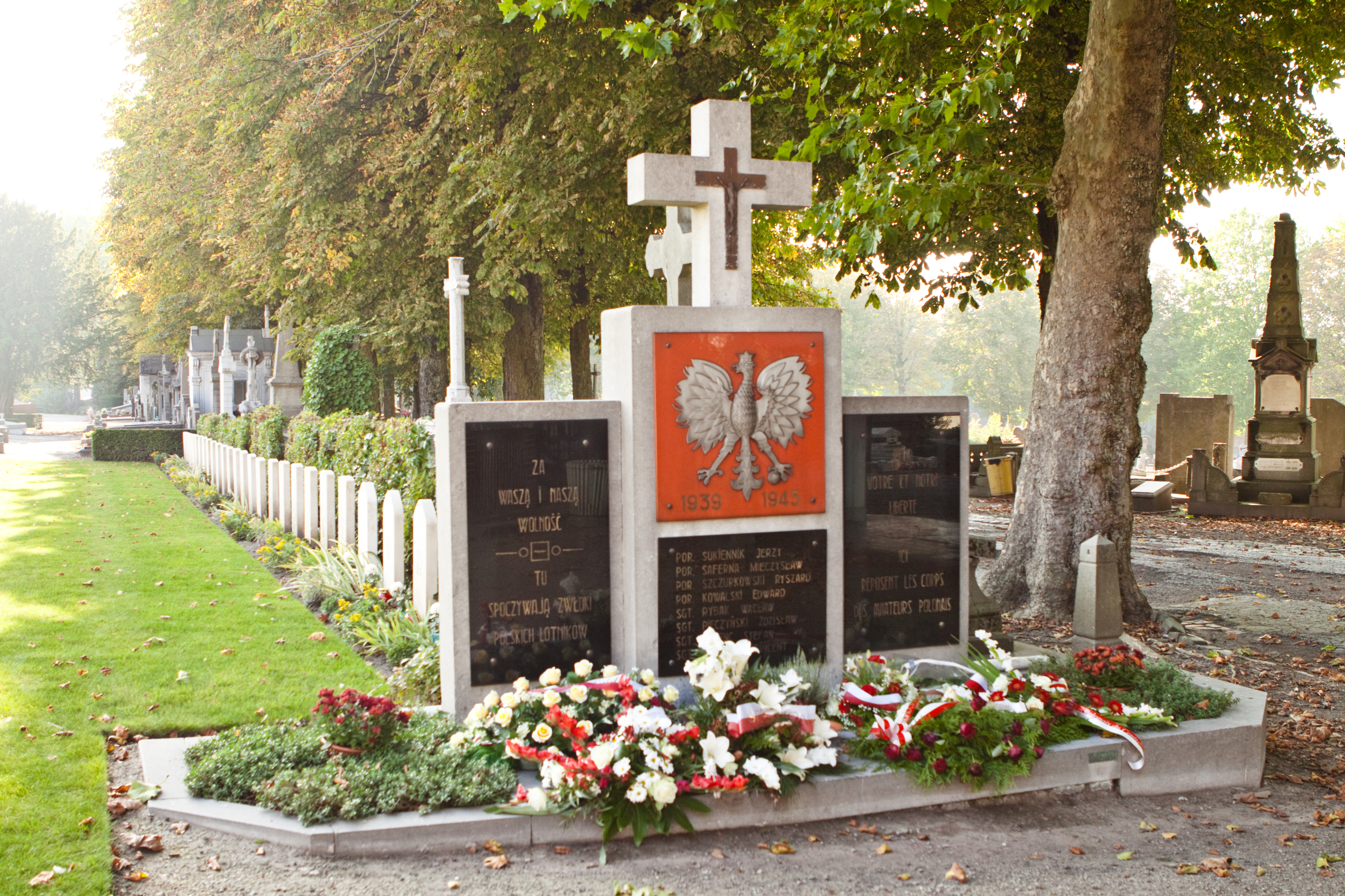 Charleroi Communal Cemetery